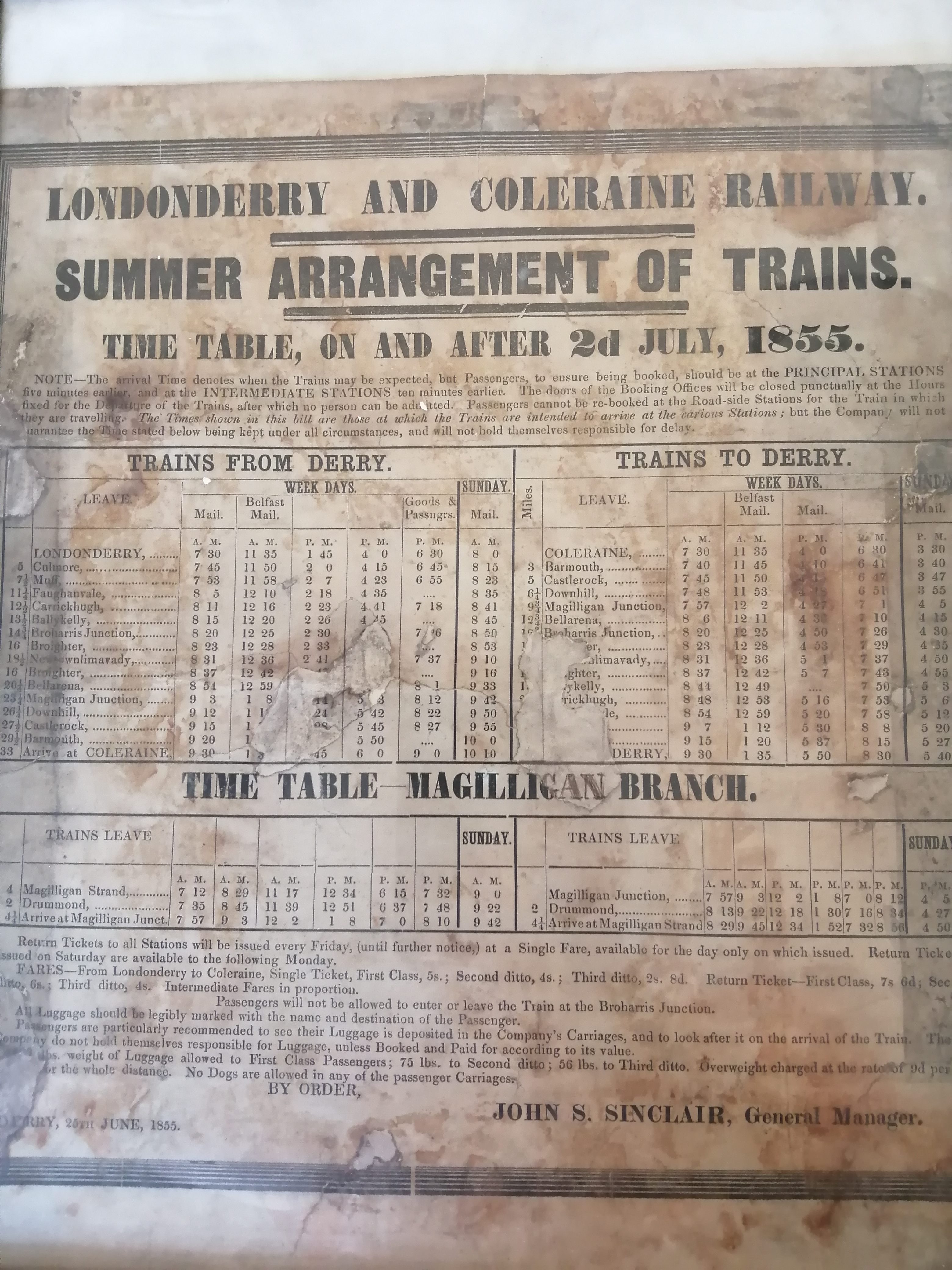 Londonderry & Coleraine Railway timetable from the Summer of 1855 including trains for the Magilligan Branch